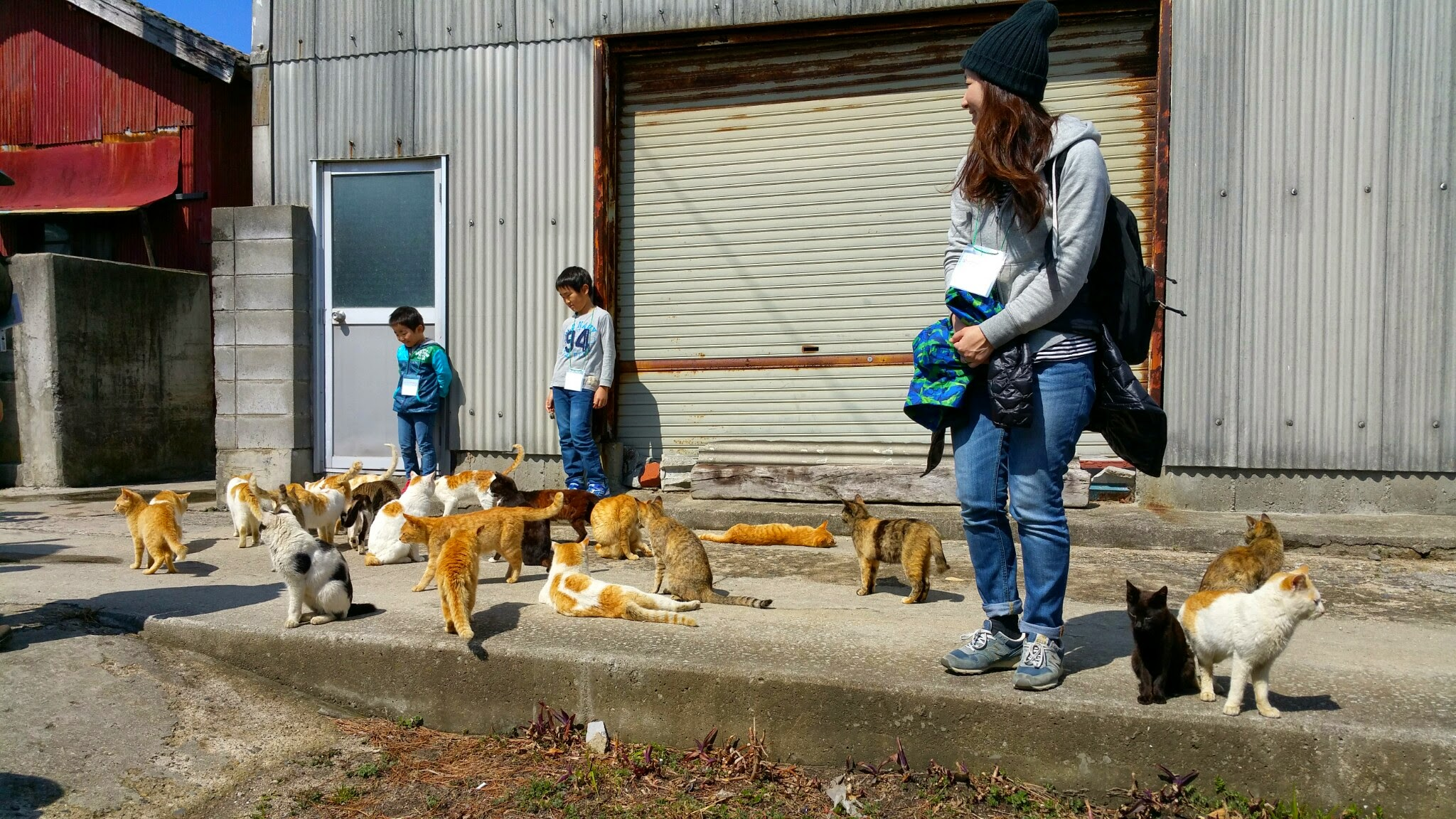 [Note too cute:moe]: Ogijima of the Seto Inlands Sea called Nick name "Nekoshima(Cat island)" is a very paradise of cat!